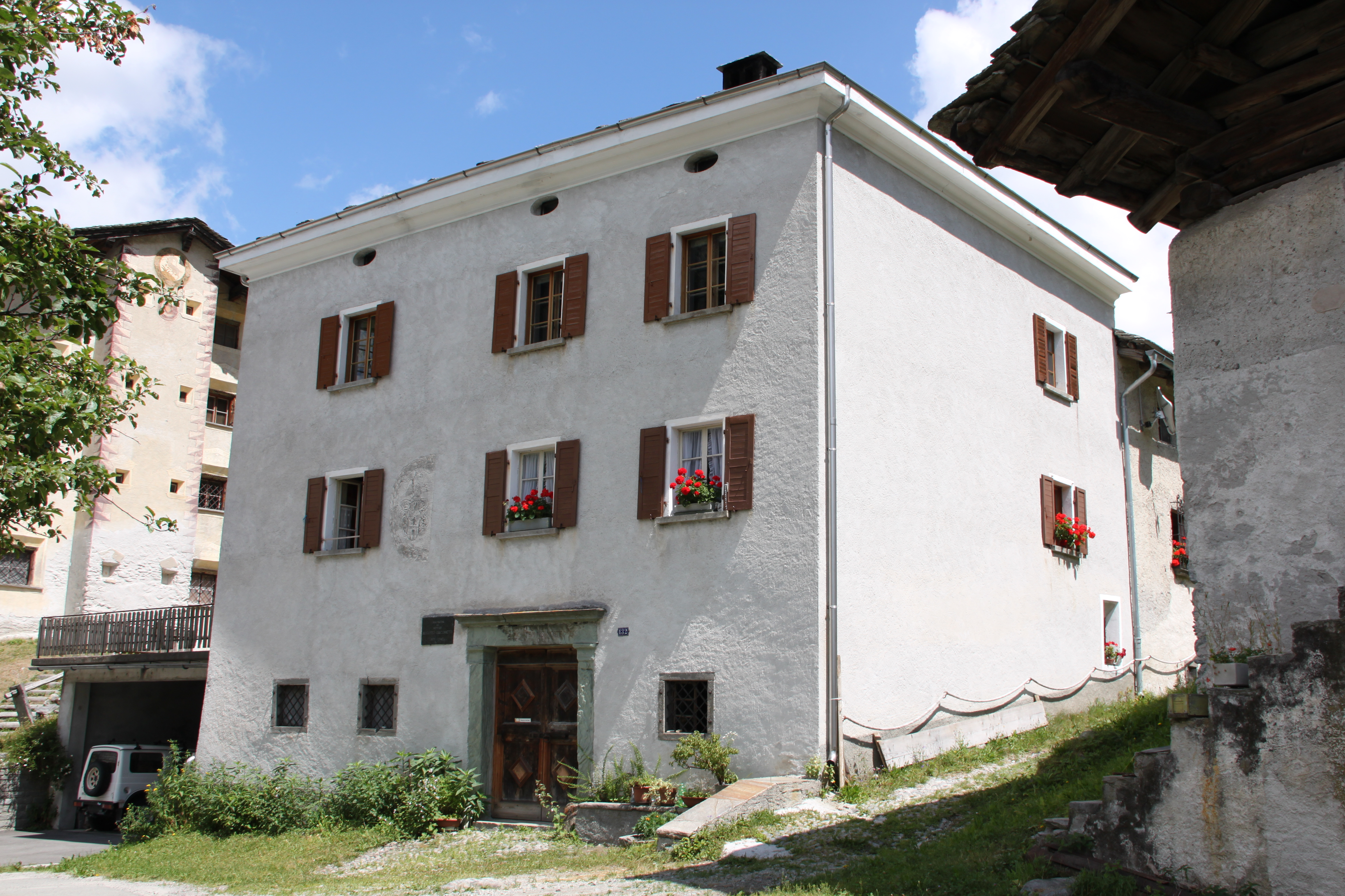 House of Augusto Giacometti in Stampa, Switzerland